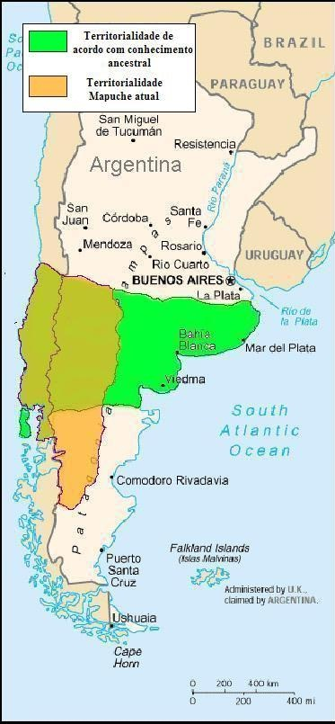 Território Mapuche